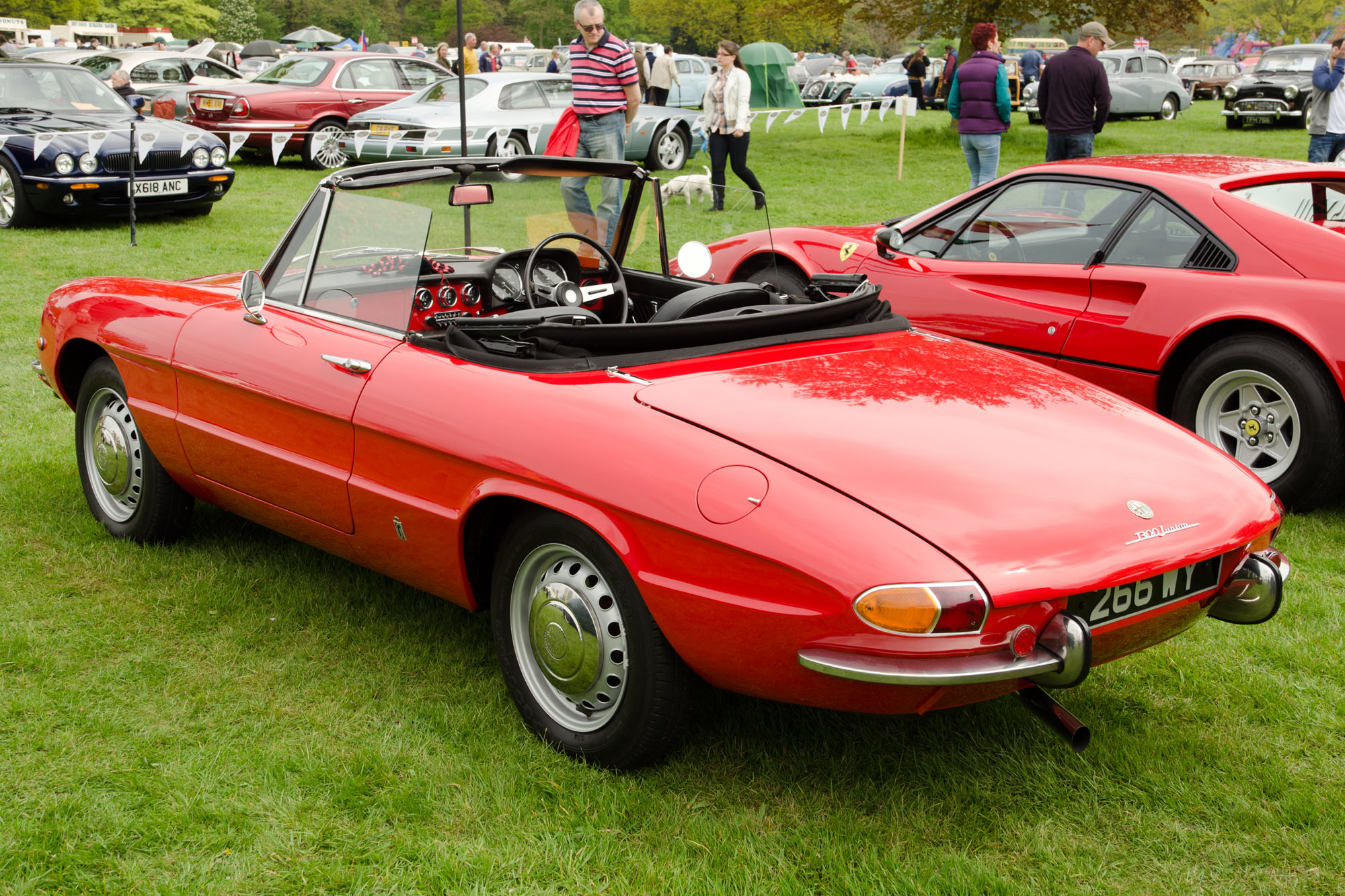 Catton Hall Classic Car Show 04/05/2014